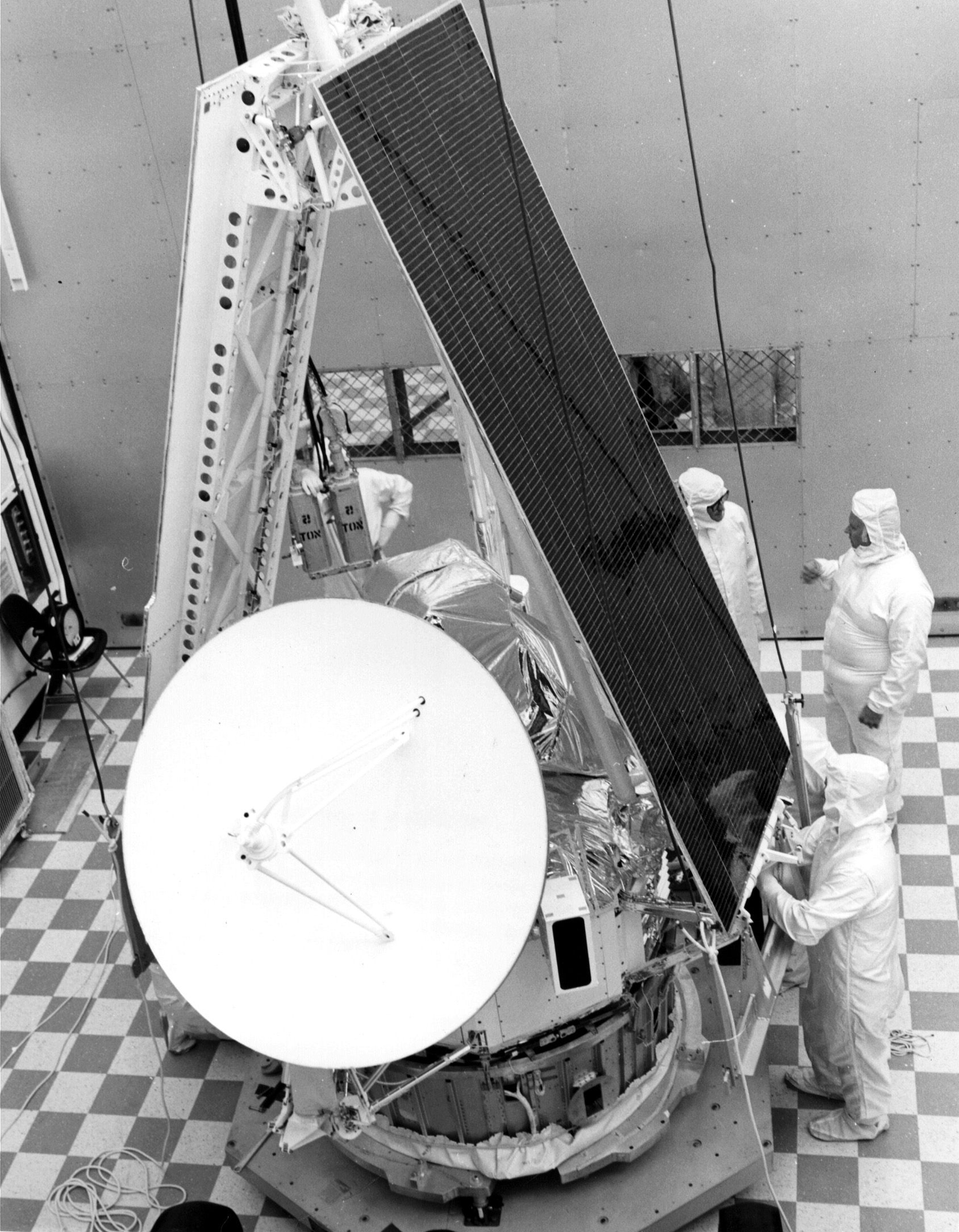 After complete check out, technicians prepare to encapsulate Mariner 10, the spacecraft that will be launched toward the planets Venus and Mercury in early November. The Mariner 10 project includes two first: First use of one planet's (Venus') gravitational field to propel a spacecraft onto another; and first exploration of Mercury. The spacecraft weighs 1,100 pounds, including 170 pounds of scientific equipment. Two television cameras aboard Mariner 10 are expected to take 8,000 pictures of the two planets, and six scientific experiments will return information on solar wind, magnetic fields, charged particles, temperature emissions, radio signals, and atmospheric conditions. Mariner will be launched atop Atlas/Centaur 34, from NASA Complex 36B at Cape Kennedy, Fla.